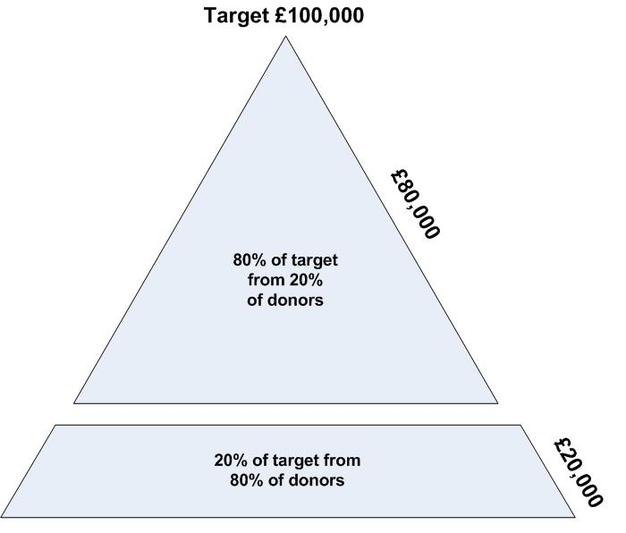 Pareto principle applied to community fundraising